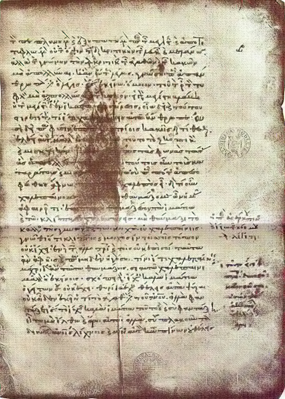 Codex Bodleianus (Cod. graec. Misc. 251, Auct. T. 4. 13), Bodleian Library, c. 11th or 12th century. The Discourses of Epictetus. The large stain on the manuscript on this page (Book 1. 18. 8-11) has made this passage partially illegible. Photo is from Contributions to a Bibliography of Epictetus, by W. A. Oldfather. University of Illinois, 1927. This monochrome image has been colour-adjusted to make it appear closer in colour to the medieval manuscript.